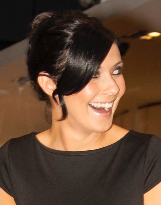 Kym Marsh opening a clothes shop at the Arndale Centre in Manchester, October 2012.